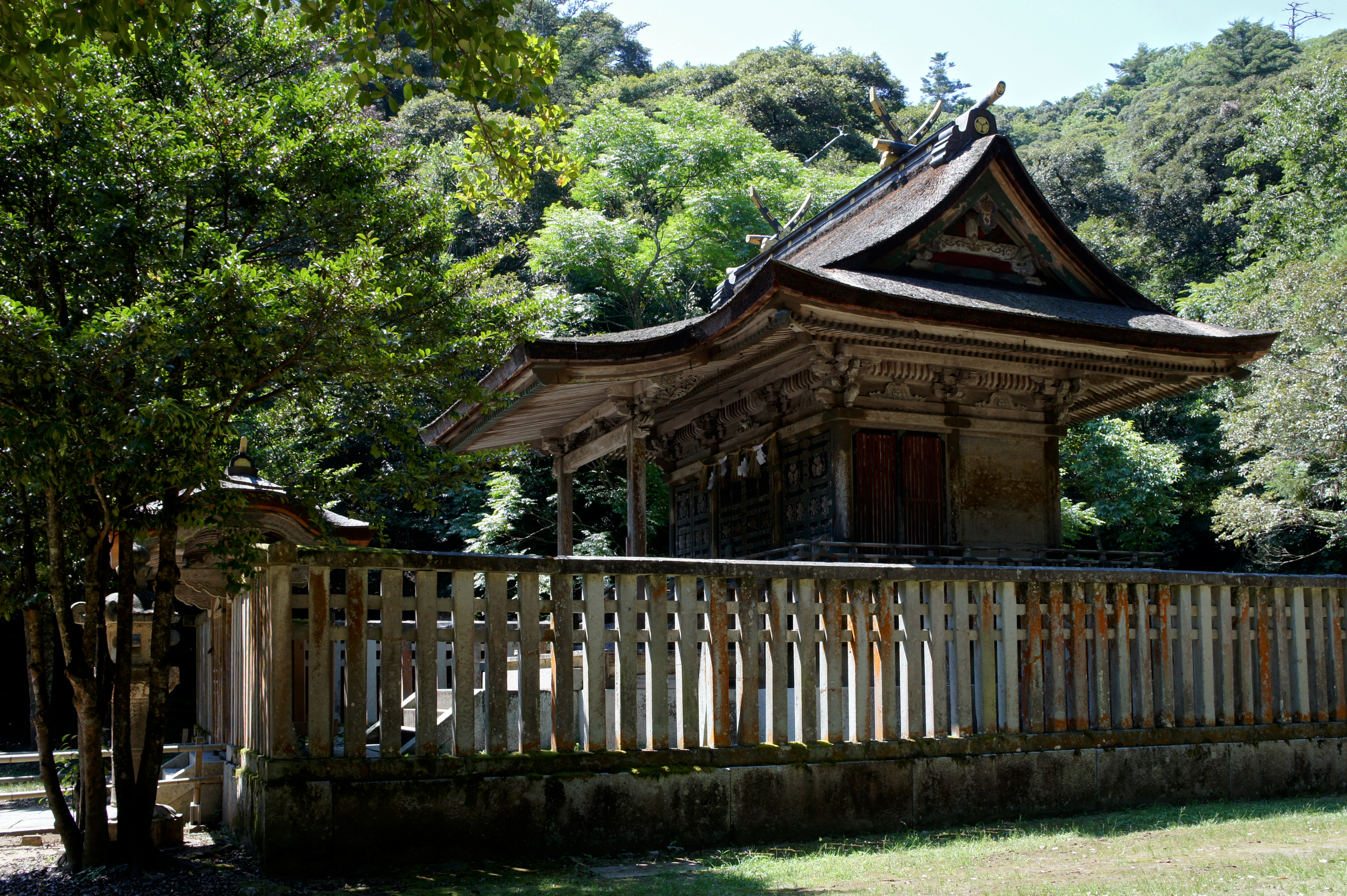 Tottori Tosho-gu (Ōchidani Jinja) in Tottori, Tottori prefecture, Japan.